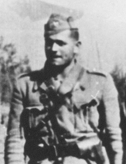 Jože Klanjšek-Vasja